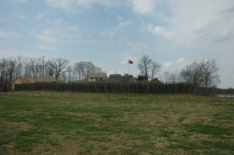 Photo of the fort taken from the Cherokee Lodge outside of the fort. Photo by Bill Porter